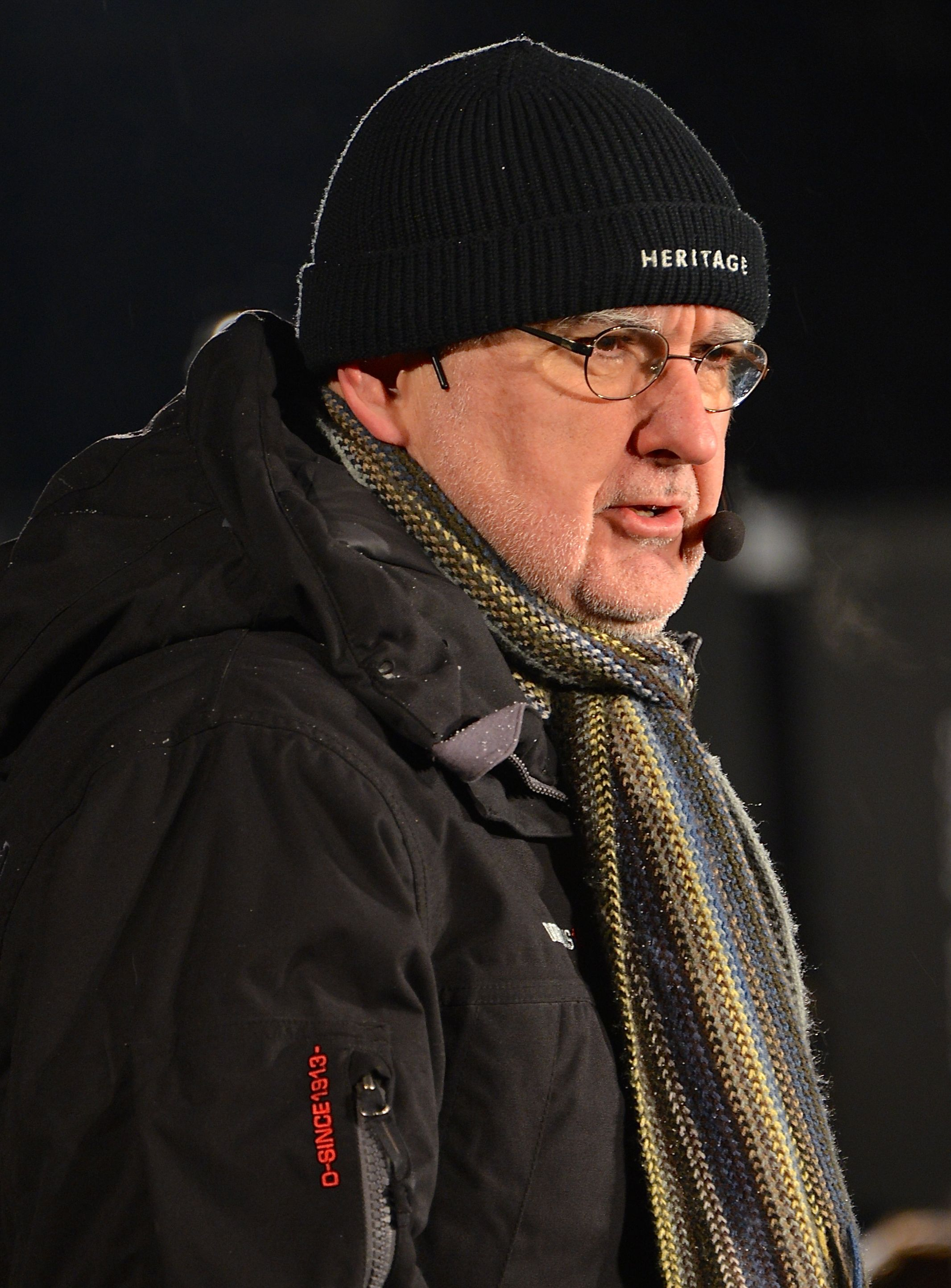 Memorial Ceremony at the Raoul Wallenberg square with Holocaust survivors. Mr Eskil Franck, Director of the Living History Forum, and Erik Ullenhag, Minister for Integration. 27 January 2013, International Holocaust Remembrance Day.